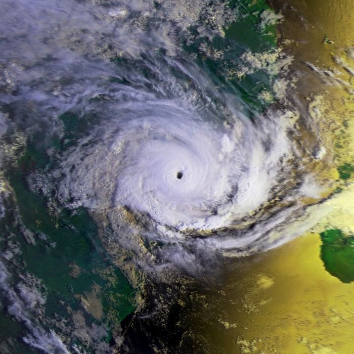 This image shows Cyclone Leon-Eline making landfall on February 22 at 0411 UTC. This image was produced from data from NOAA-15, provided by NOAA.